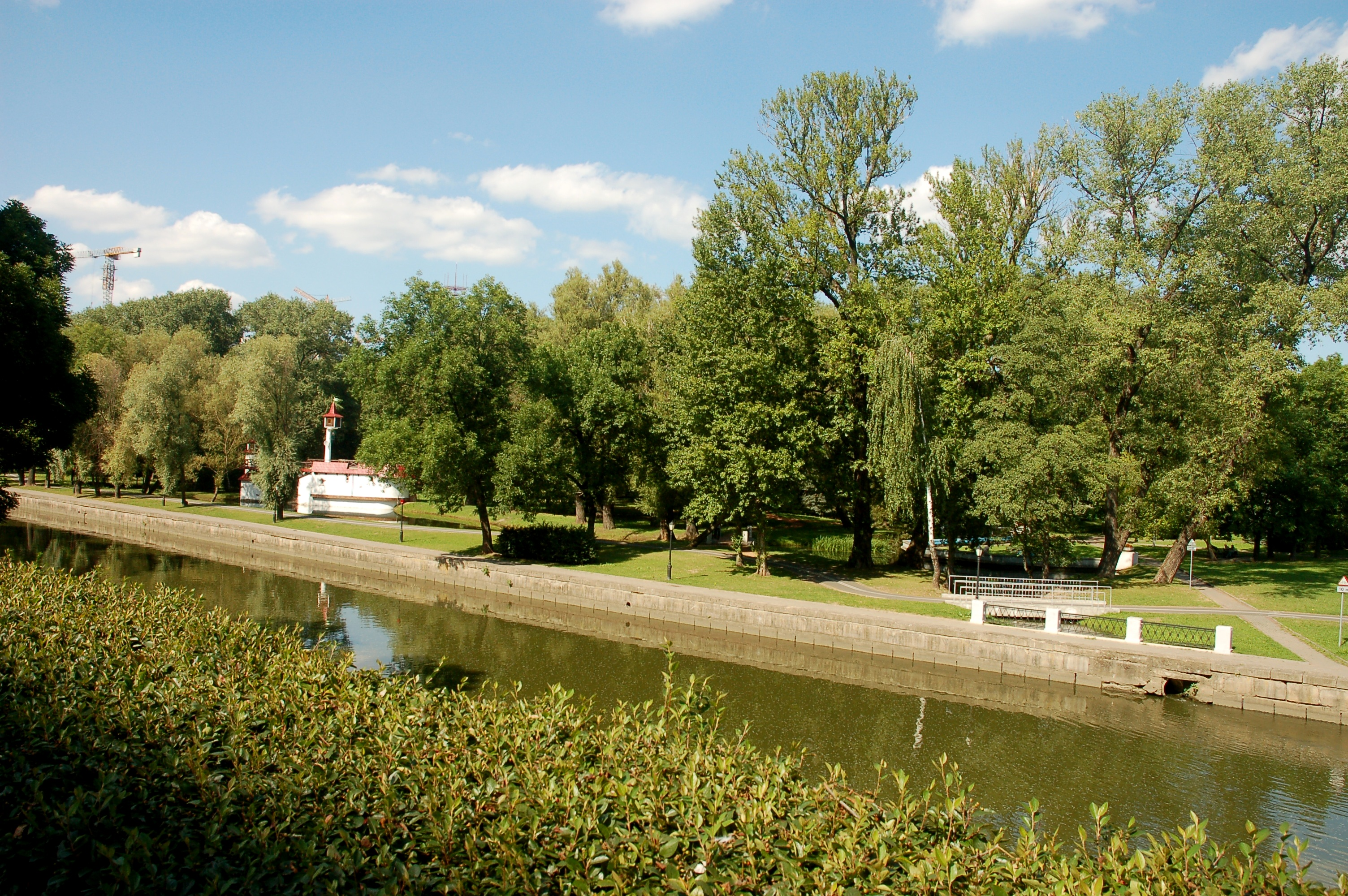 Minsk, The Svislach River and Gorky Park